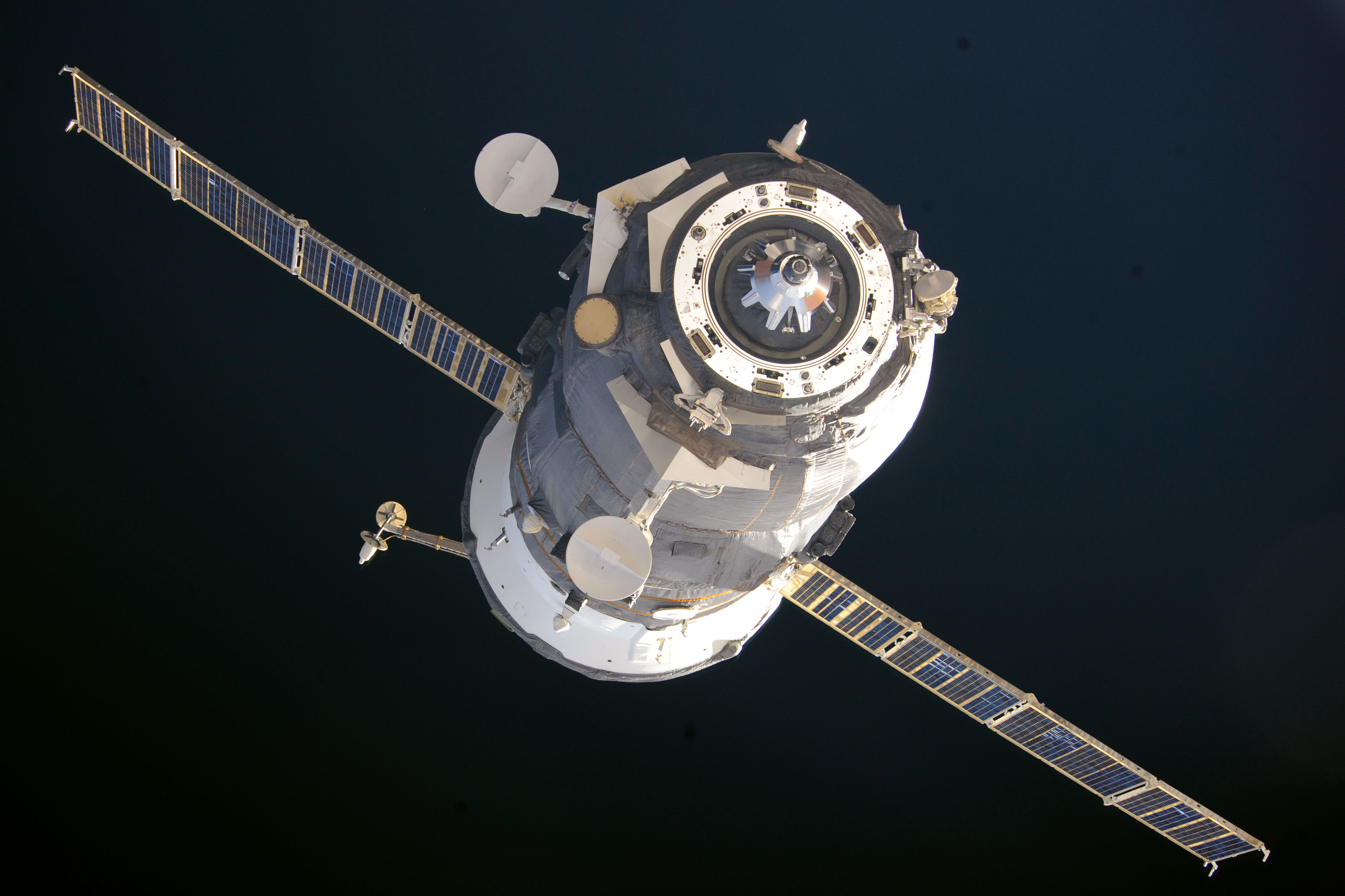 The unpiloted ISS Progress 40 supply vehicle departs from the International Space Station at 7:43 p.m. (EST) on Jan. 23, 2011. Filled with trash and discarded items, Progress 40 will be used for scientific experiments until it is deorbited and burned up in Earth's atmosphere. Its departure clears the way for the arrival of the next Russian resupply vehicle, ISS Progress 41, which is scheduled to launch at 8:31 p.m. (EST) on Jan. 27 and dock to the space station on Jan. 29, delivering three tons of food, fuel and supplies for the Expedition 26 crew.